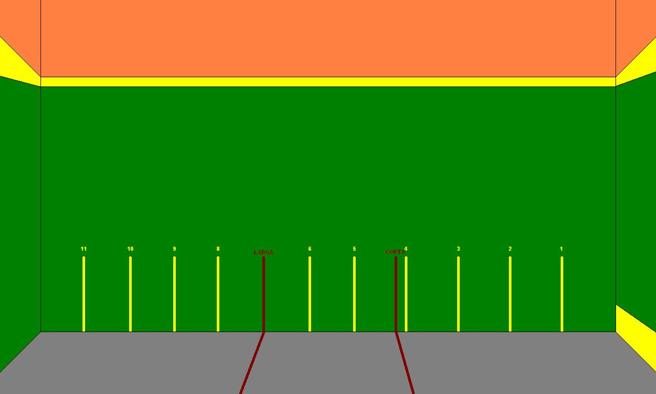 View from the "outside" of the Frontenis court.